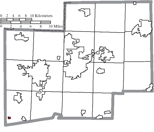 Map of the municipal and township boundaries of Stark County, Ohio, United States, as of the 2000 census, with the location of the village of Wilmot highlighted. Township borders are shown only in unincorporated areas in order to differentiate incorporated and unincorporated areas more clearly.